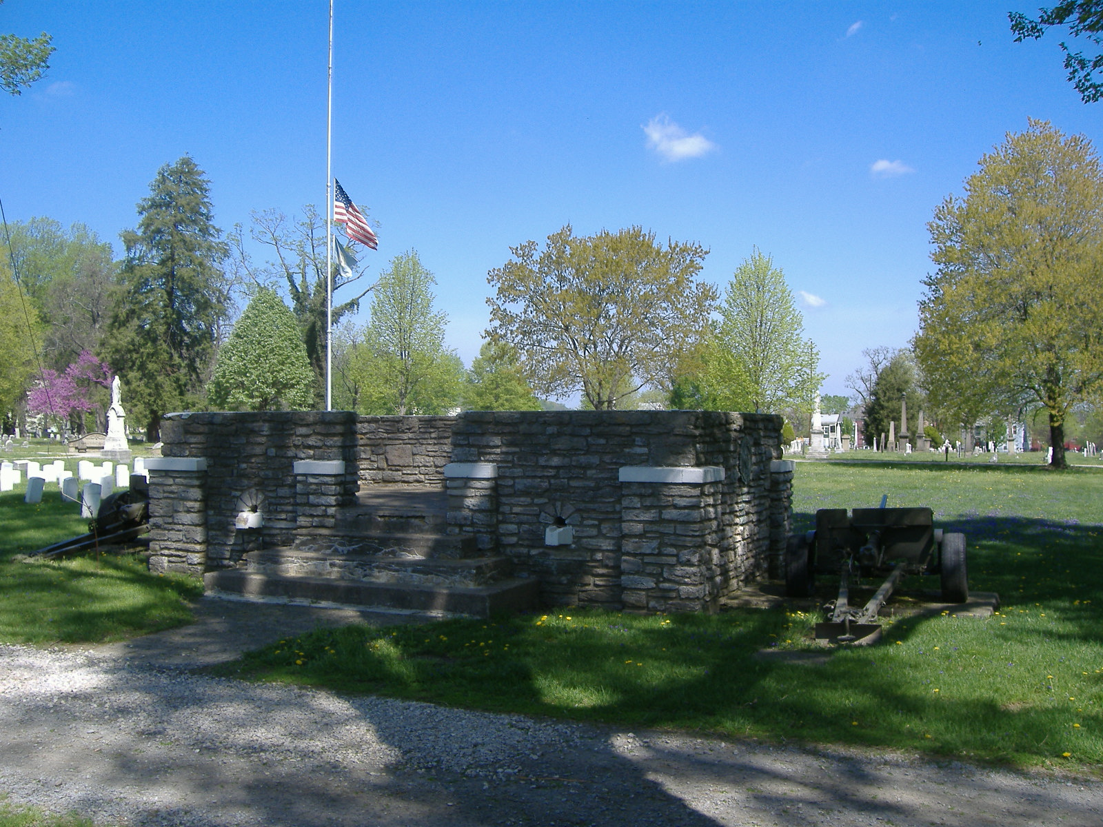 South side of Veteran's Monument in Covington (Covington, Kentucky)